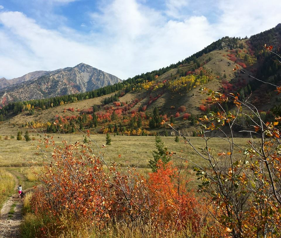 Wonderfull place!!!